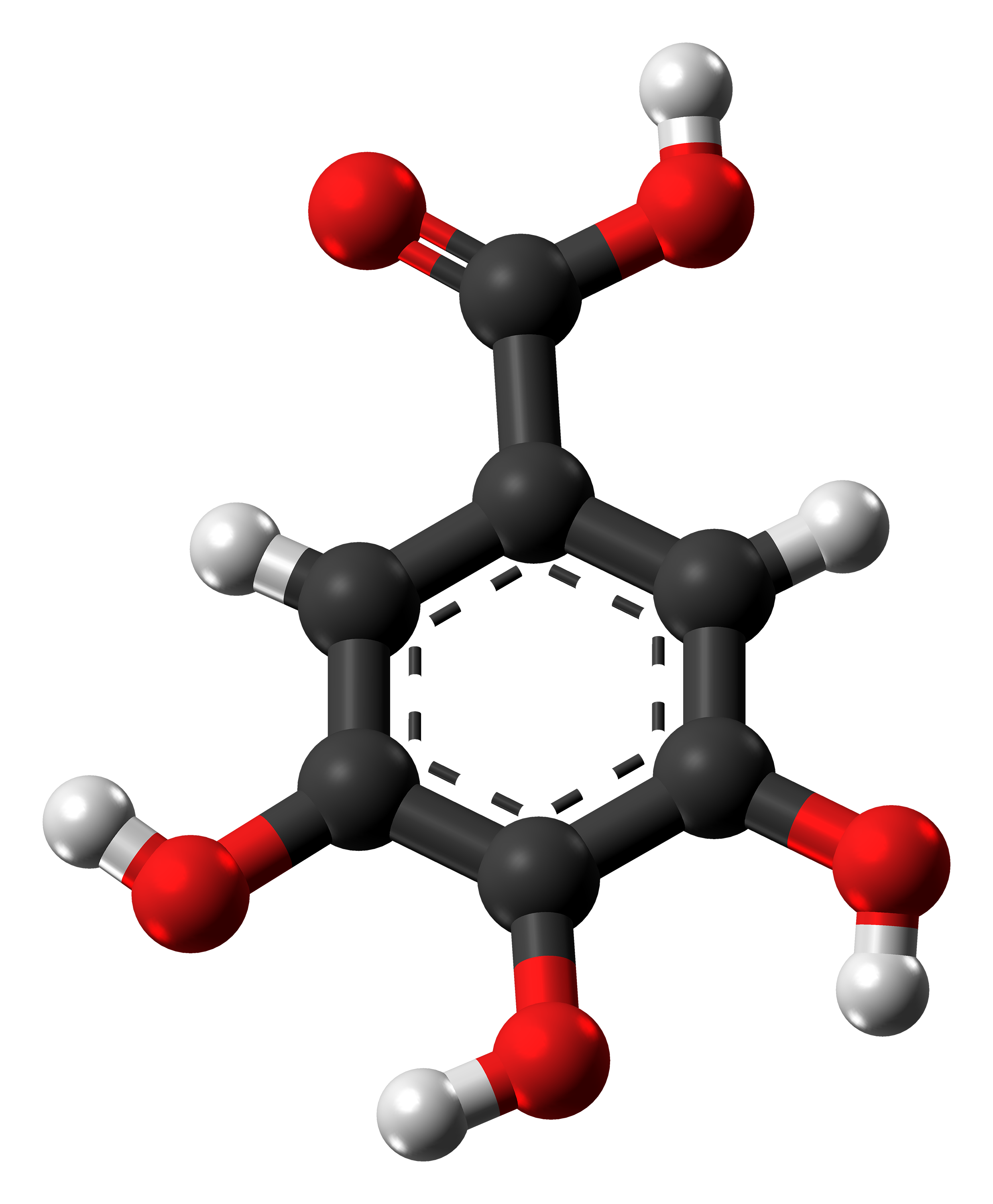 Ball-and-stick model of the gallic acid molecule, an organic acid found in many natural products, including gallnuts. Based on the crystal structure of gallic acid monohydrate, as determined by scientific study. Color code: Carbon, C: black Hydrogen, H: white Oxygen, O: red